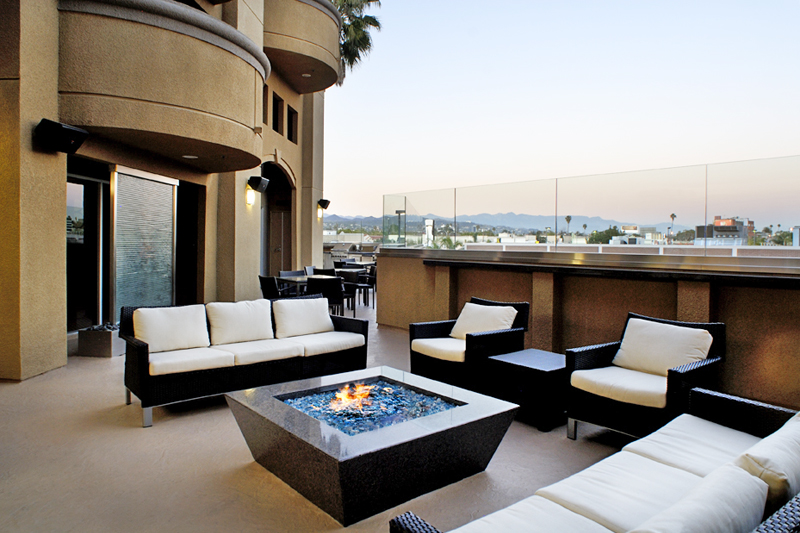 One of AIMCO's properties' amenities - firepits and seating areas